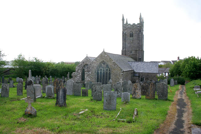 St Marnarch's Church, Lanreath This Church, dedicated to St Marnarch, is Norman with a 15th century south aisle & tower. A monument for Charles Grylls, who died in 1611, is in the chancel and there are village stocks in the porch.